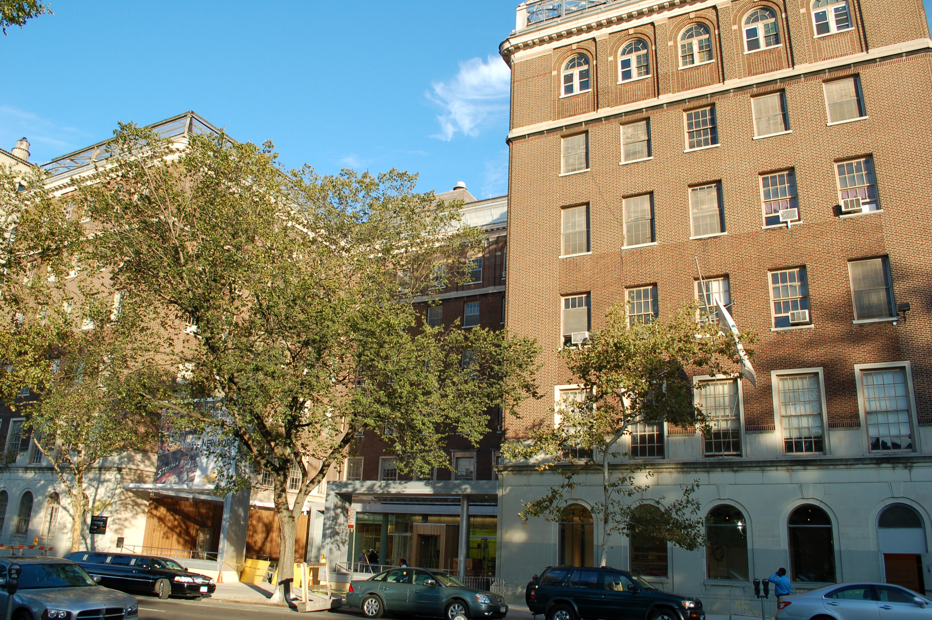 El Museo del Barrio in New York City